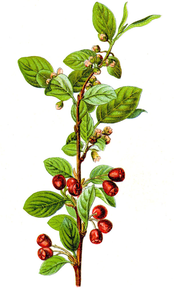 Cotoneaster integerrimus Medik. Original Caption Echte Hirschbeere, Cotoneaster integerrima